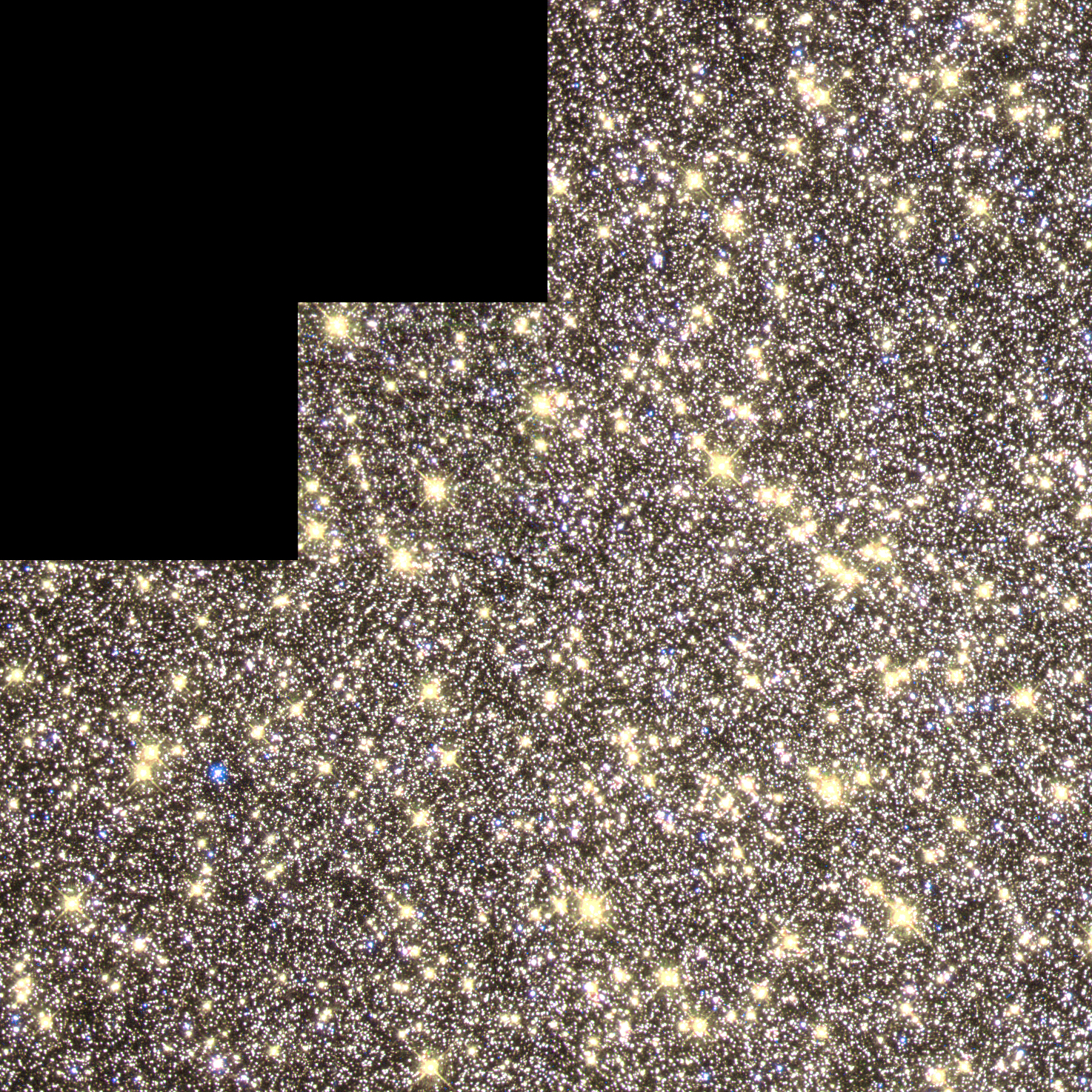 This image, a small region in the heart of the Omega Centauri globular cluster, was taken with the Hubble Space Telescope Wide Field and Planetary Camera 2. Omega Centauri is so large in our sky that only a small portion of it could fit in the camera's field of view, but even this region contains some 50,000 stars in an area about 13 light years wide. A similar area located where our Sun resides would contain about a half a dozen stars.